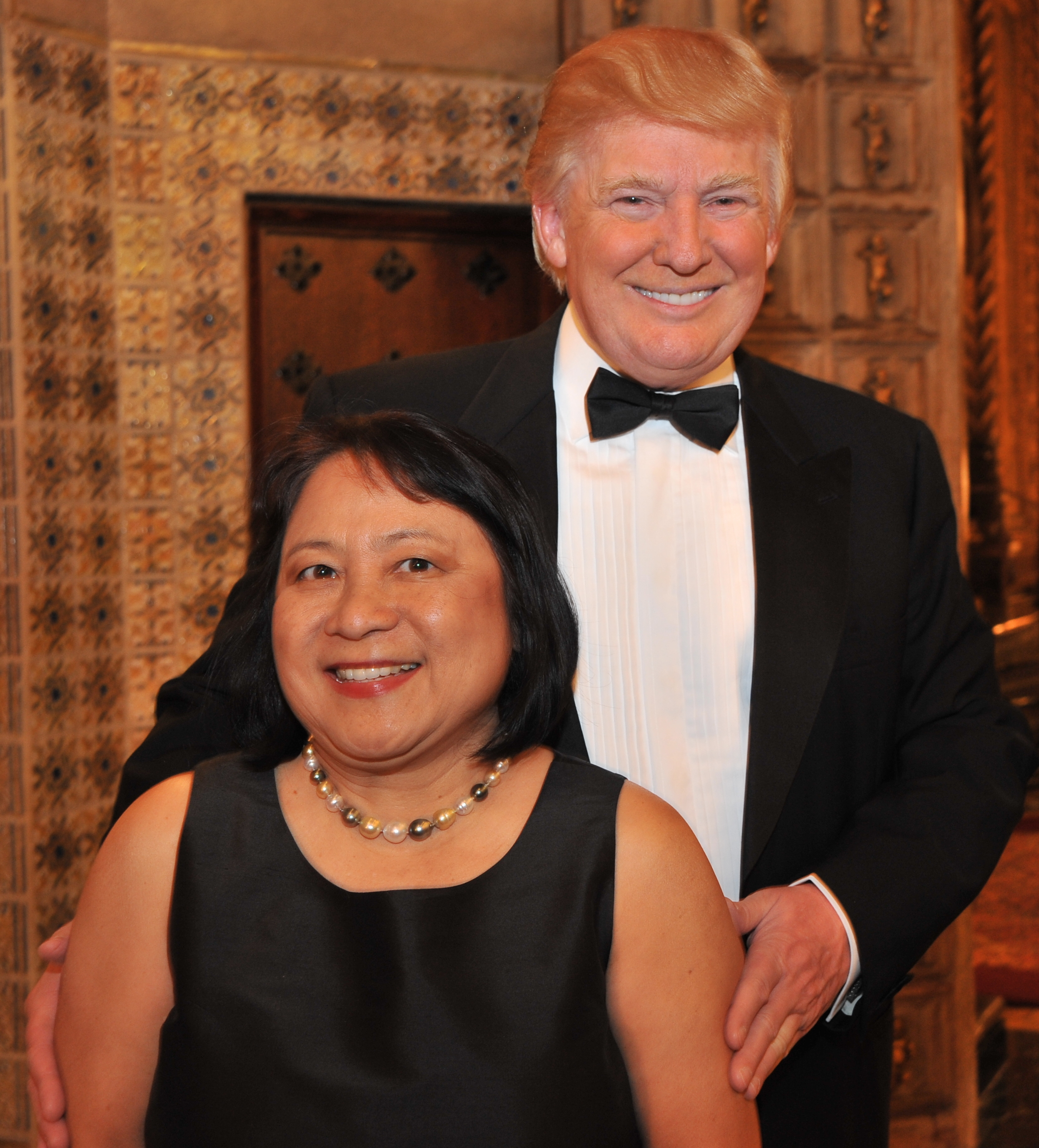 Fund raising event to benefit Cleveland Clinic Florida held at Mar-A-Lago. Palm Beach, Fl, USA